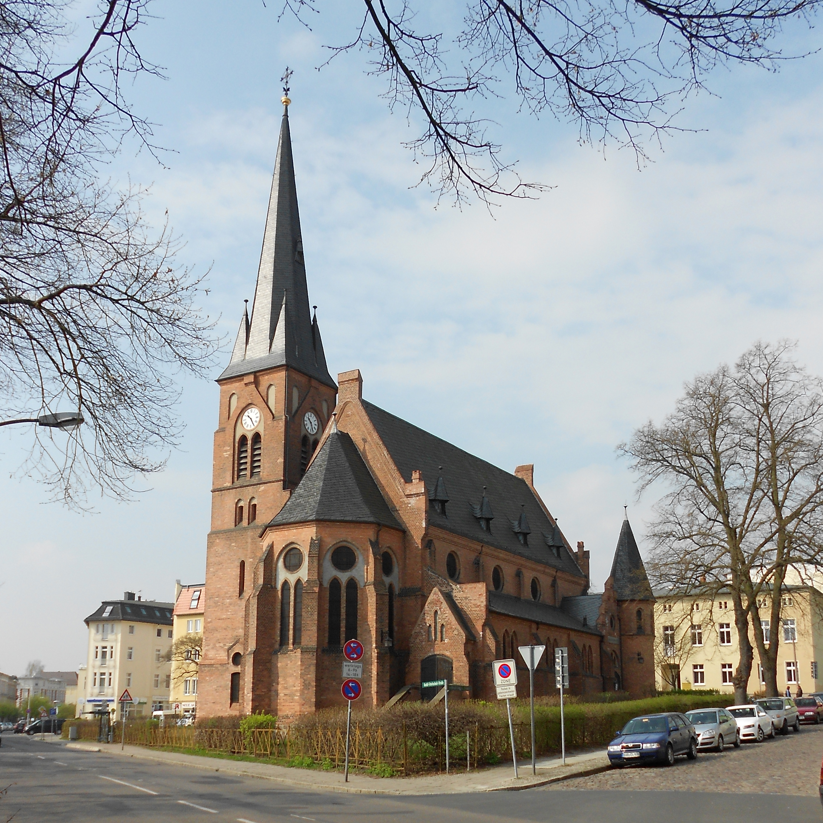 Church Johanniskirche in Eberswalde